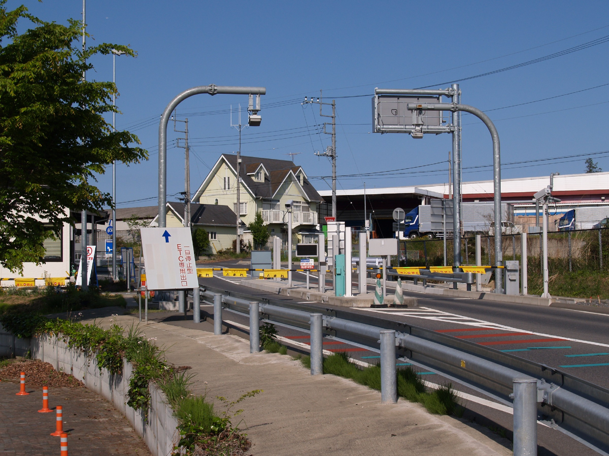 Smart interchange facility at Tomobe Service Area on the Joban Expressway, as seen from within the service area